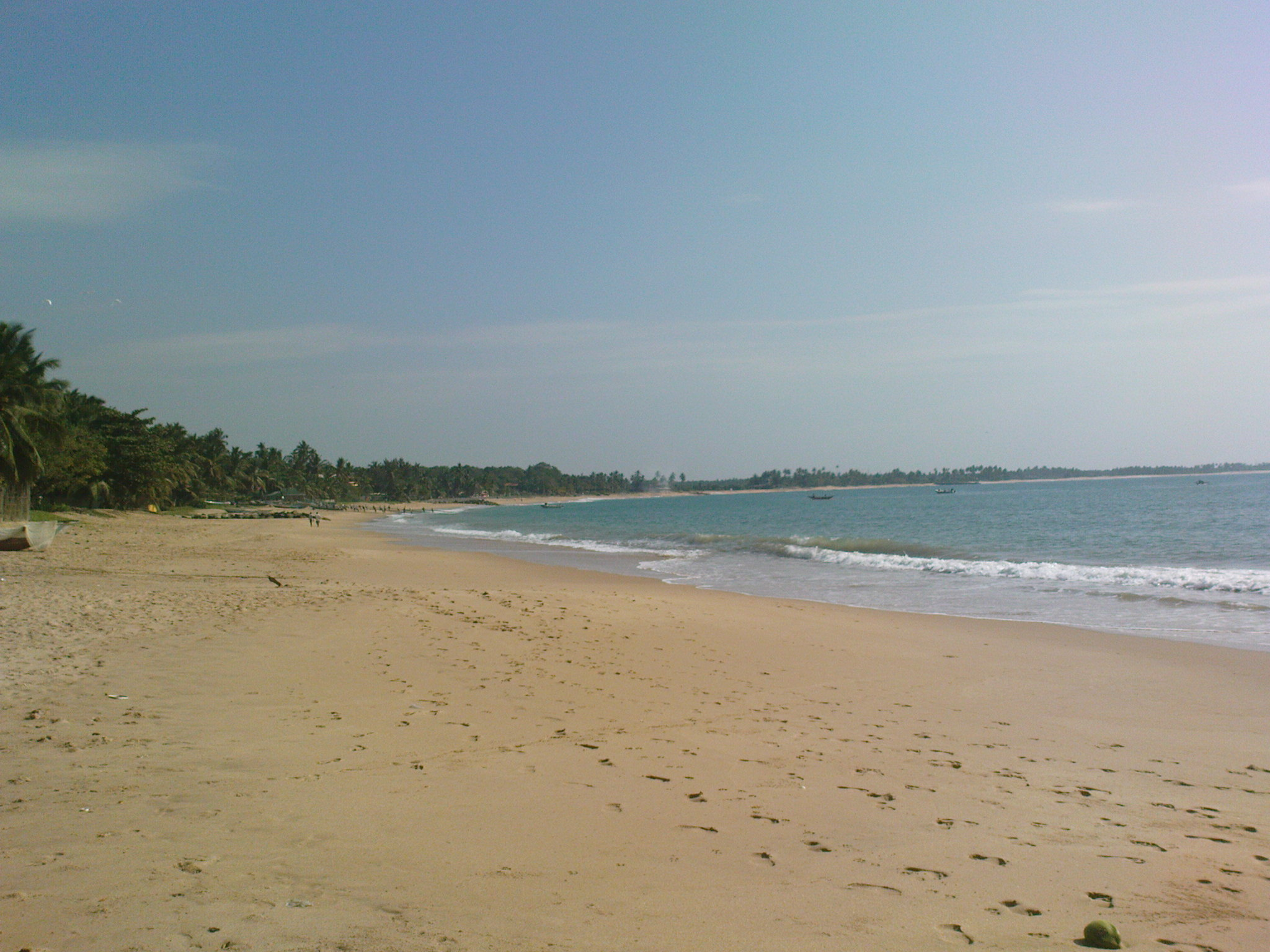 A photograph of Tangalle beach, Sri Lanka. සිංහල: ශ්‍රී ලංකාවේ තංගල්ල නගරය ආශ්‍රිත මුහුදු වෙරළේ දර්ශනයක්.